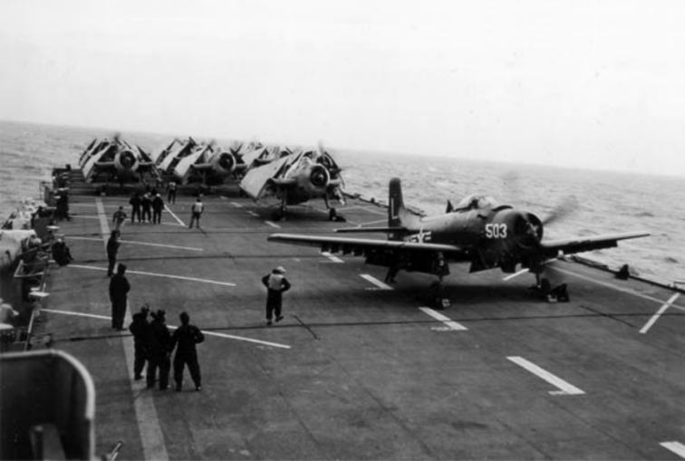 A U.S. Navy Douglas AD-4B Skyraider from Attack Squadron 75 (VA-75) "Sunday Punchers", piloted by LTJG Jim Elster, ready for launch from the Canadian aircraft carrier HMCS Magnificent (CVL 21), after the so-called "Mariner Miracle", in September 1953. The carriers USS Wasp (CVA-18), USS Bennington (AVA-20) and HMCS Magnificent (CVL 21) conducted the exercise "Mariner" in the North Atlantic. On the afternoon of 23 September 1953, with 42 planes aloft, the carriers were completely sogged in by fog. After Vice Admiral T.S. Combs and Rear Admiral H.H. Goodwin had ordered to ditch all planes near the submarine USS Redfin (SSR-272) at 1620 hrs, however, the fog lifted and all planes could be recovered safely with only minimum fuel remaining. VA-75 was assigned to Carrier Air Group 7 (CVG-7) aboard the Bennington for a deployment to the North Atlantic and the Indian Ocean from 16 September 1953 to 21 February 1954.